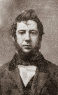 1855 Daguerreotype of Alexander Cartwright